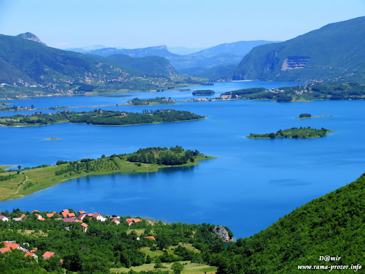 Prozor Rama